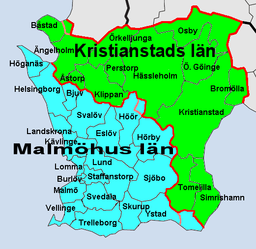 the old provincial divison of scania